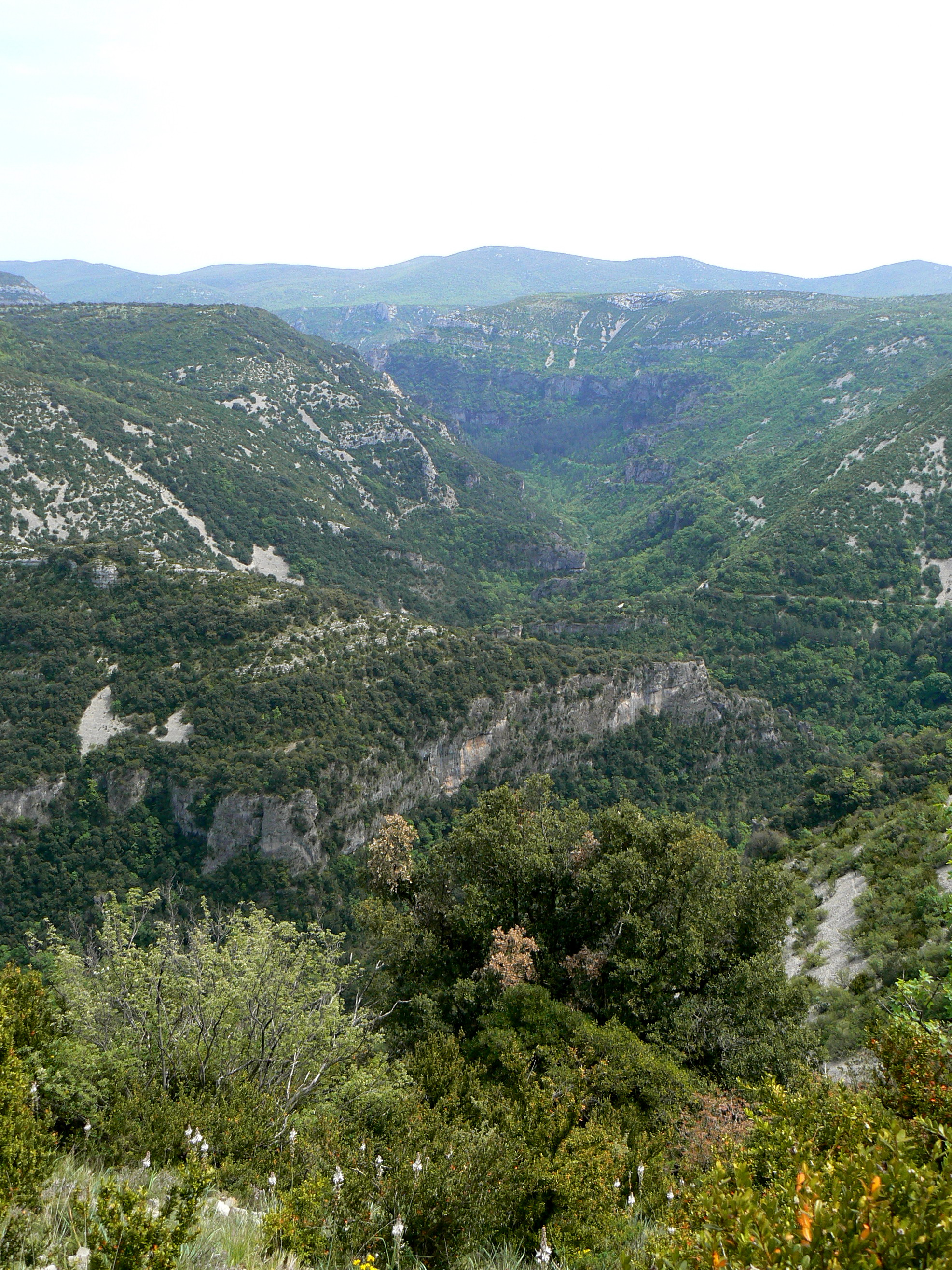 Gorges de la Vis near Saint-Maurice-Navacelles, Gard, France